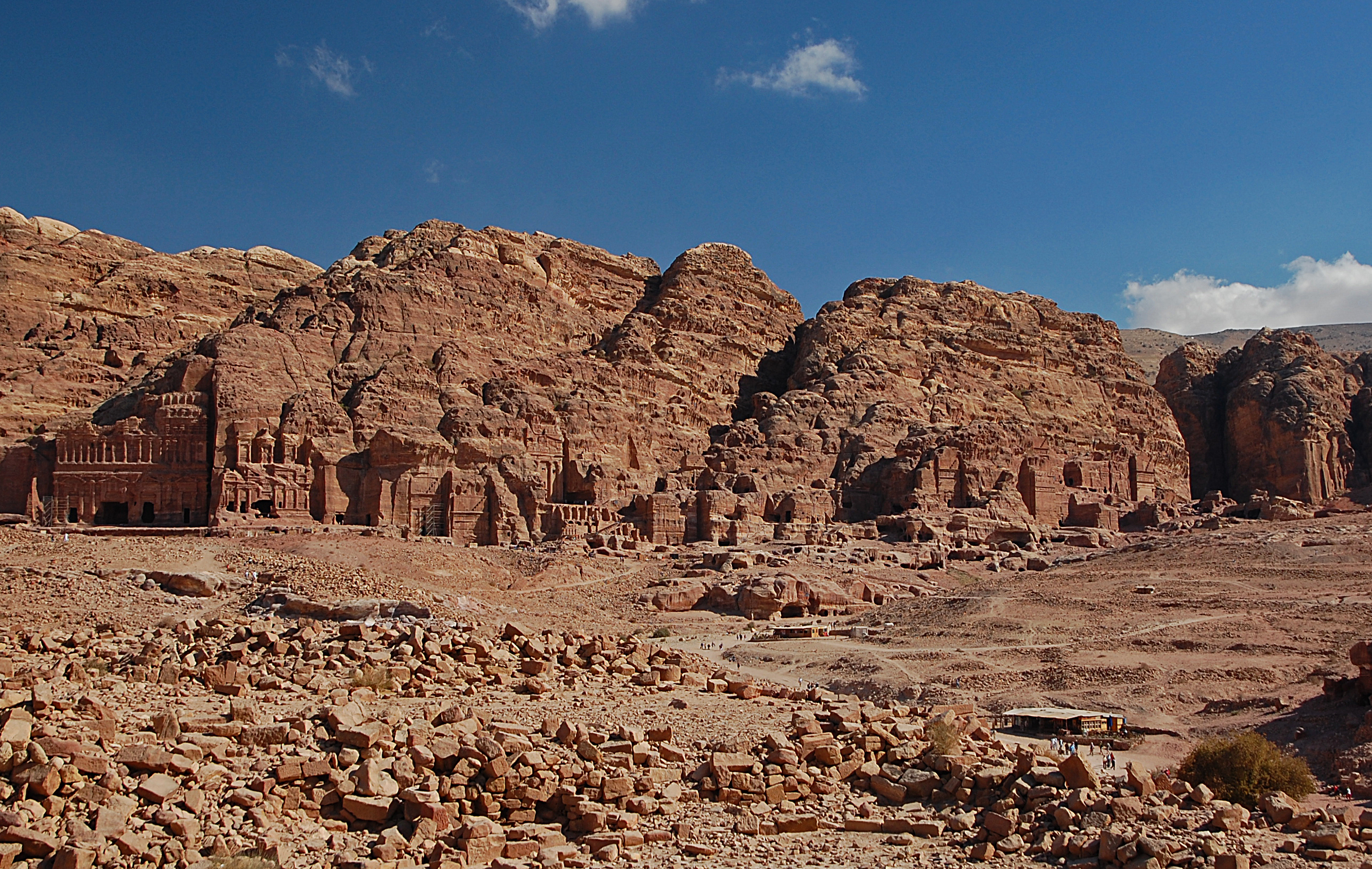 Petra